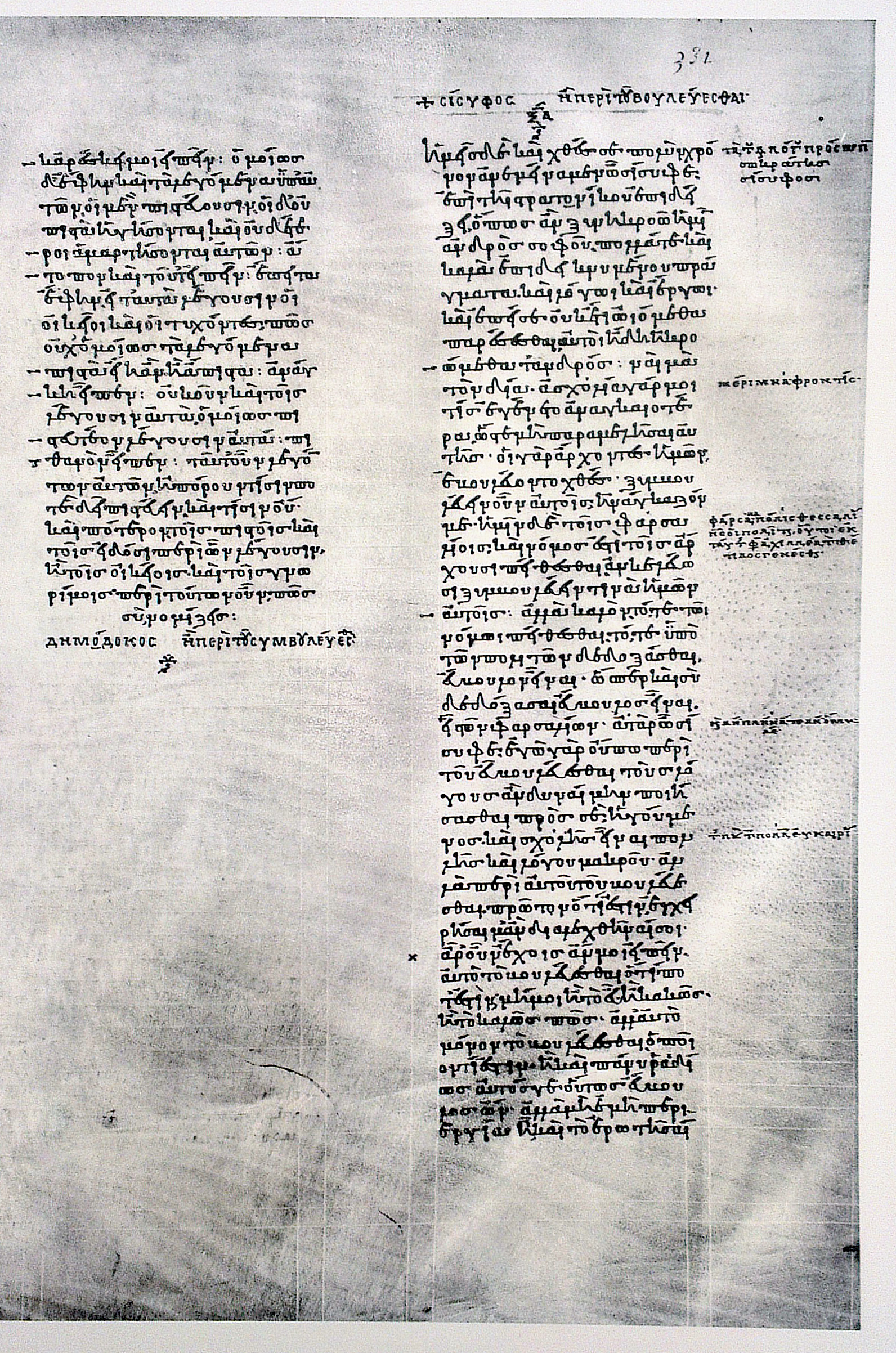 Page of the Codex Parisinus graecus 1807. Dialogue Sisyphos.